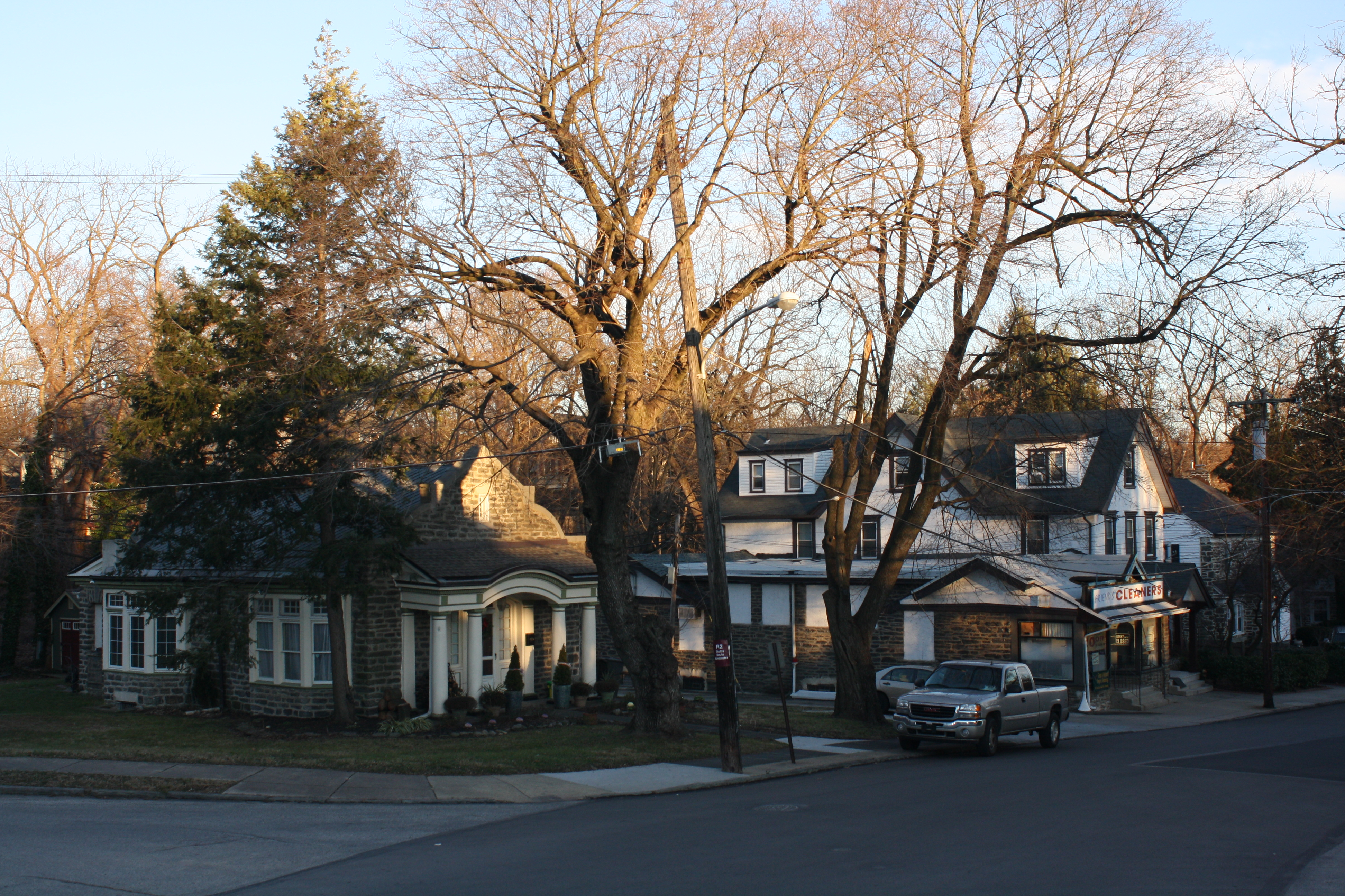 Corner of Valley and Mill Rds, Melrose Park, Pennsylvania.